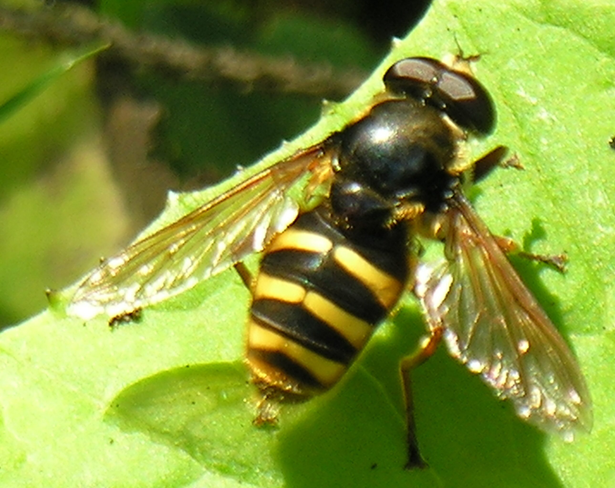 Sericomyia silentis Fam. Syrphidae (Diptera). Photographed by Algirdas in August 2005, Lithuania The name is probably Sericomyia silentis. B kimmel 13:43, 28 August 2005 (UTC)